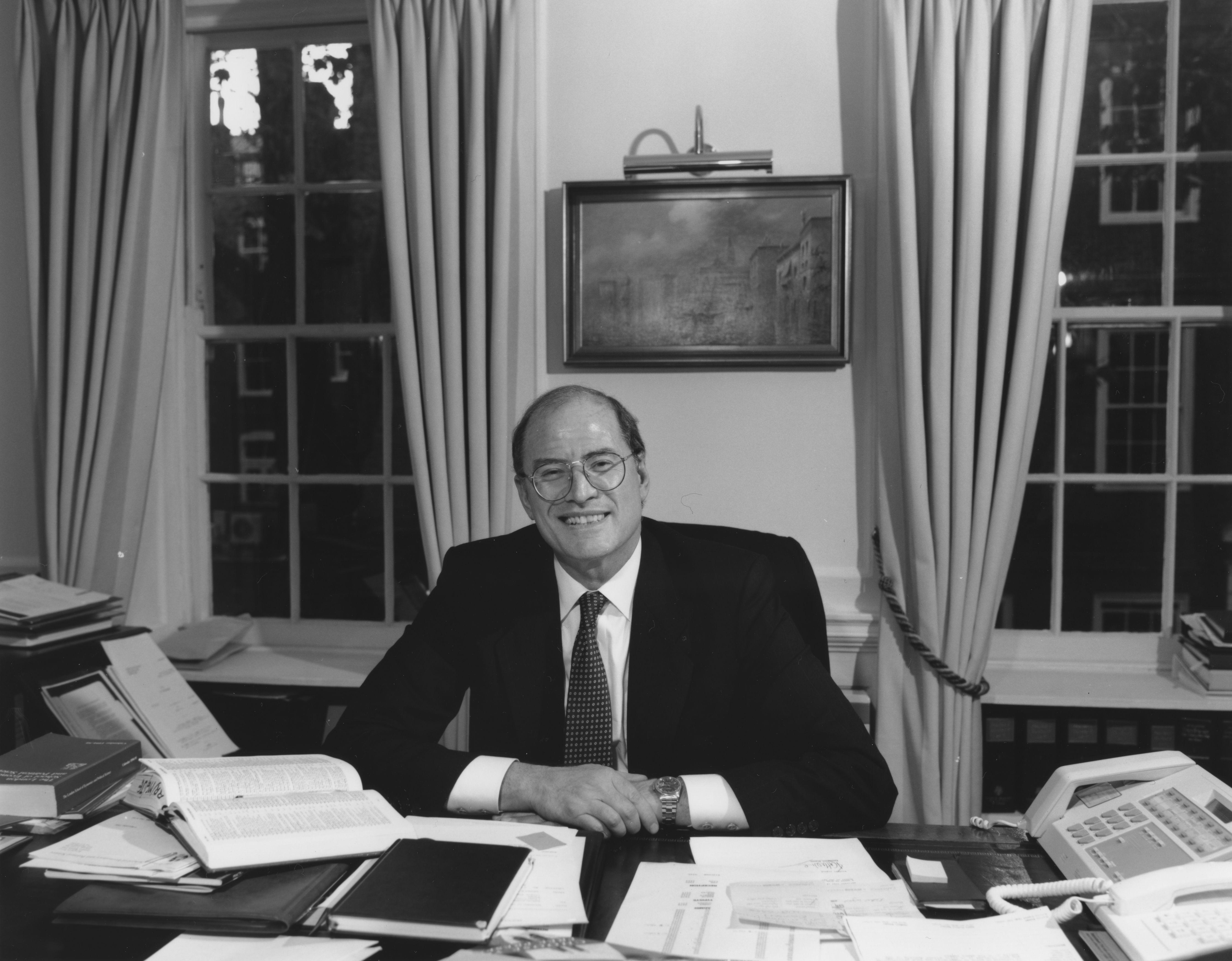 Barrister, Chair of Governors LSE 1998-2007 IMAGELIBRARY/988 Persistent URL